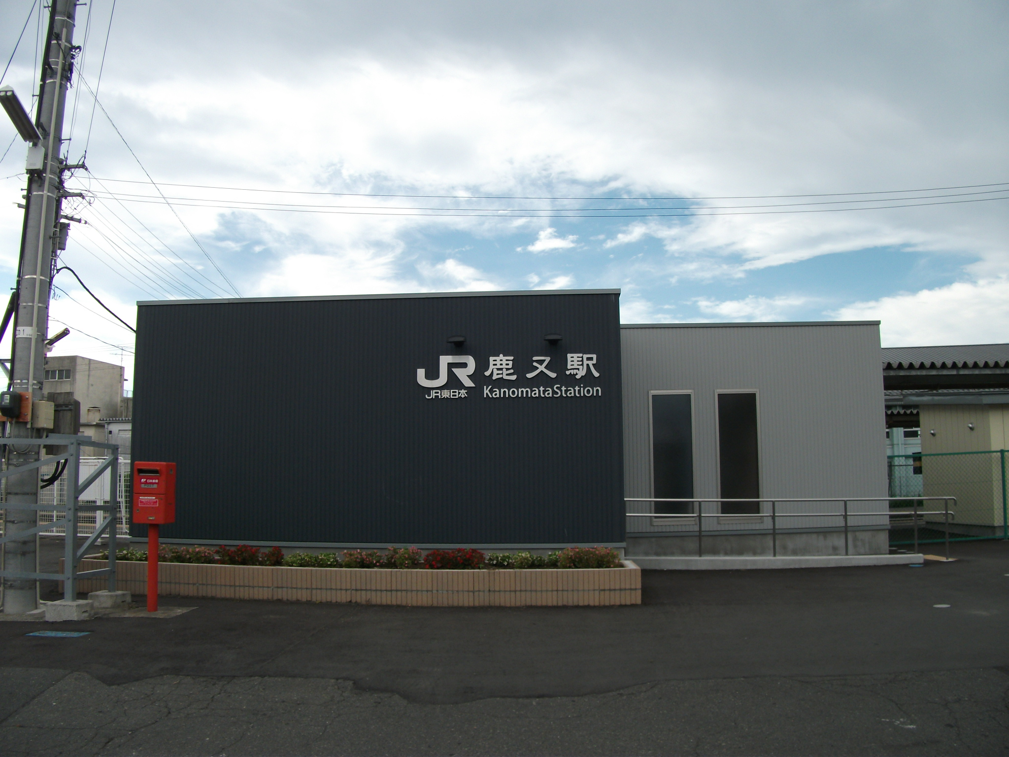 New building of Kanomata Station